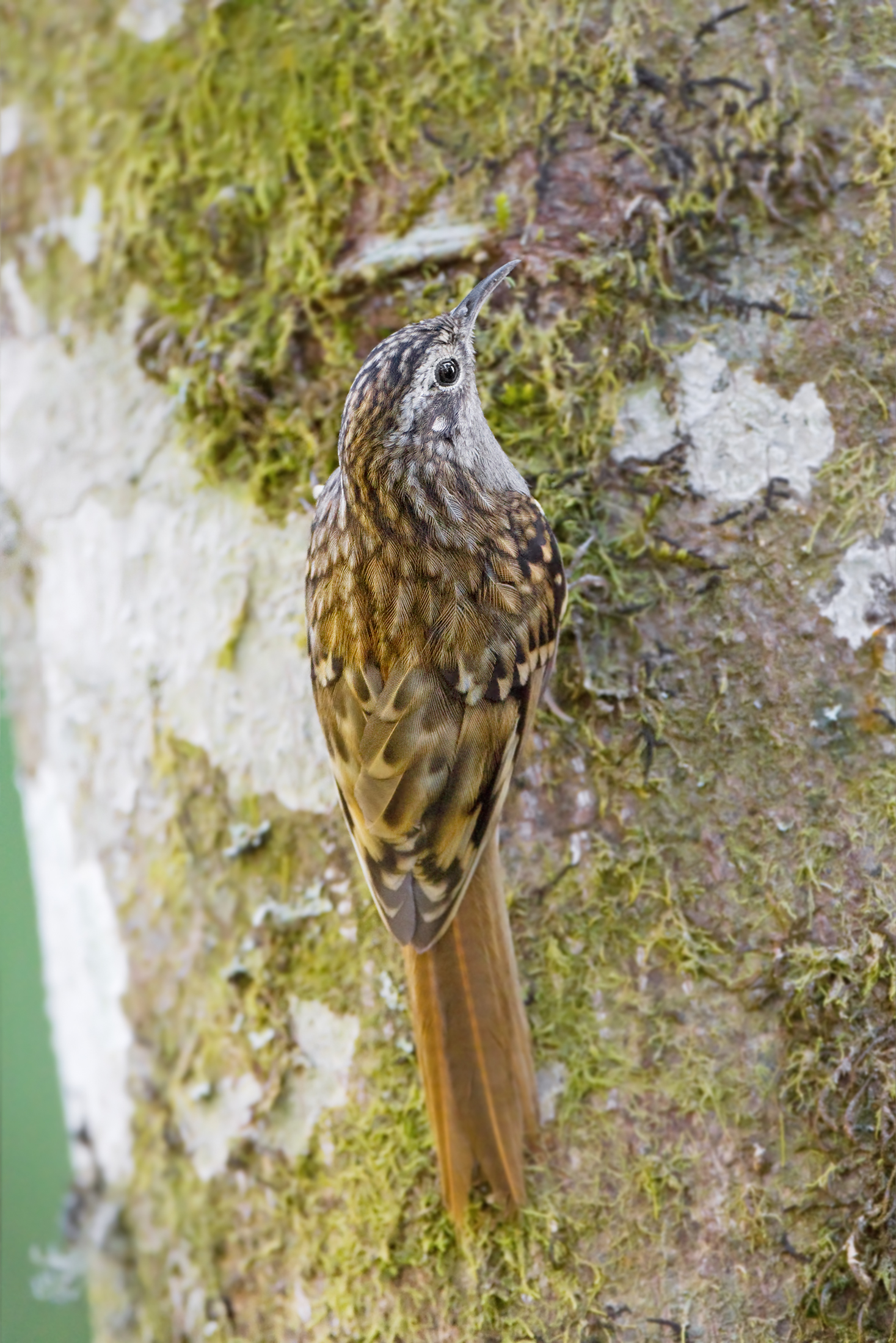 Hume's Treecreeper Certhia manipurensis (syn. C. discolor manipurensis), Chiang Mai, Thailand